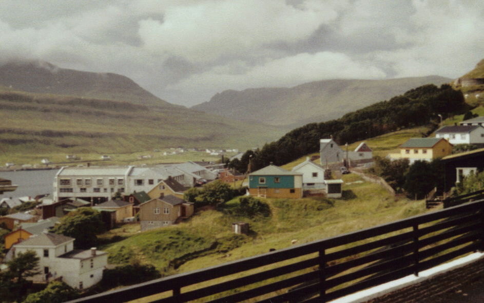 Park and Hospital in Tvøroyri, Faroe Islands